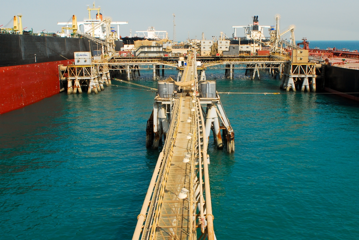 The Al Basrah Oil Terminal stretches over half a mile from the south platform to the north platform. The terminal, 30 miles off the Iraqi coast in the Persian Gulf, can host four tankers at a time and pumps more than 1.5 million barrels a day.